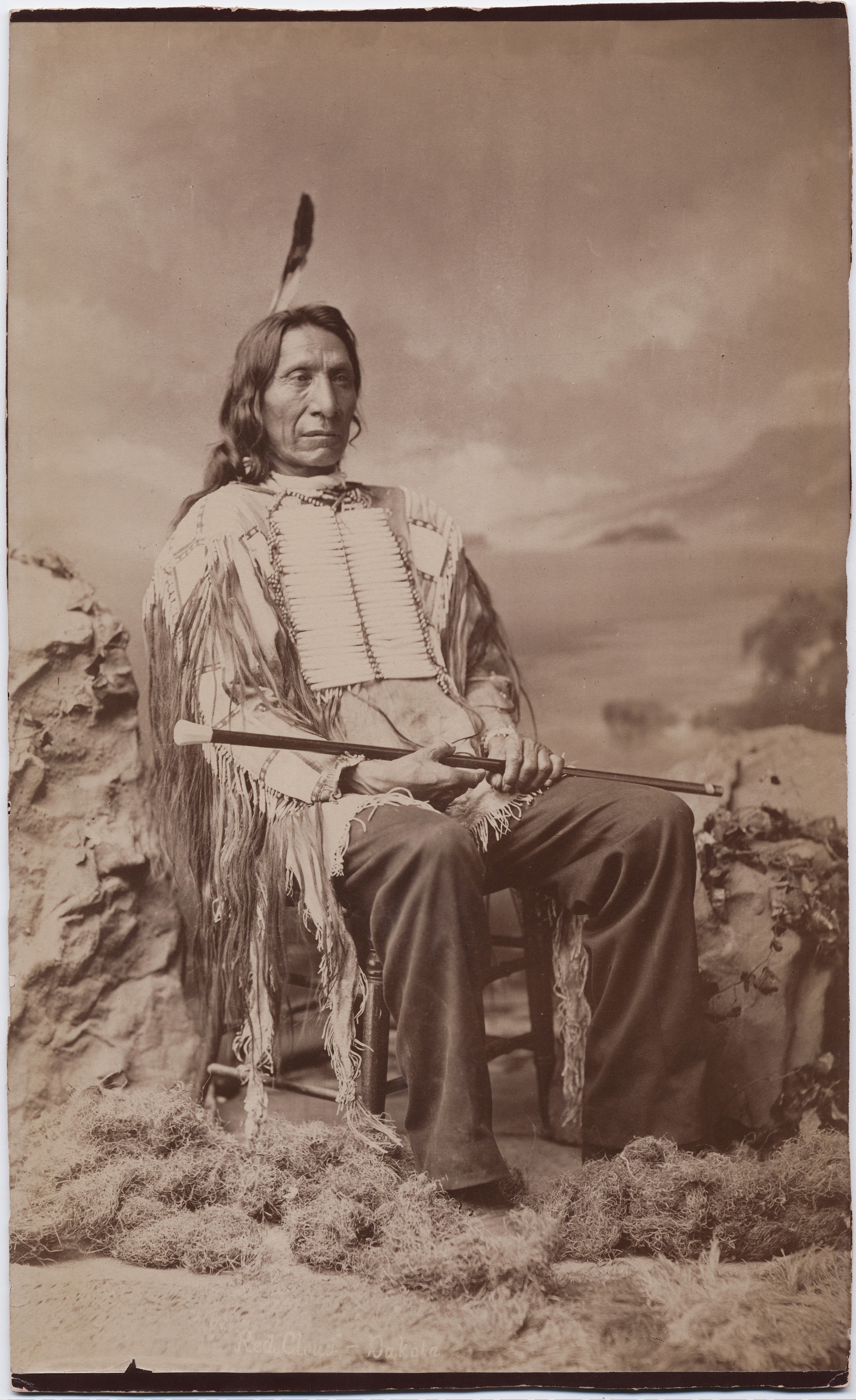 "Red Cloud," black and white photograph by the American photographer John K. Hillers (1843-1925), published by Charles M. Bell. The portrait of the chief of the Oglala Lakota Sioux was taken at Washington, D.C. 25.2 cm x 41.4 cm. Yale Collection of Western Americana, Beinecke Rare Book and Manuscript Library, Yale University, New Haven, Connecticut.